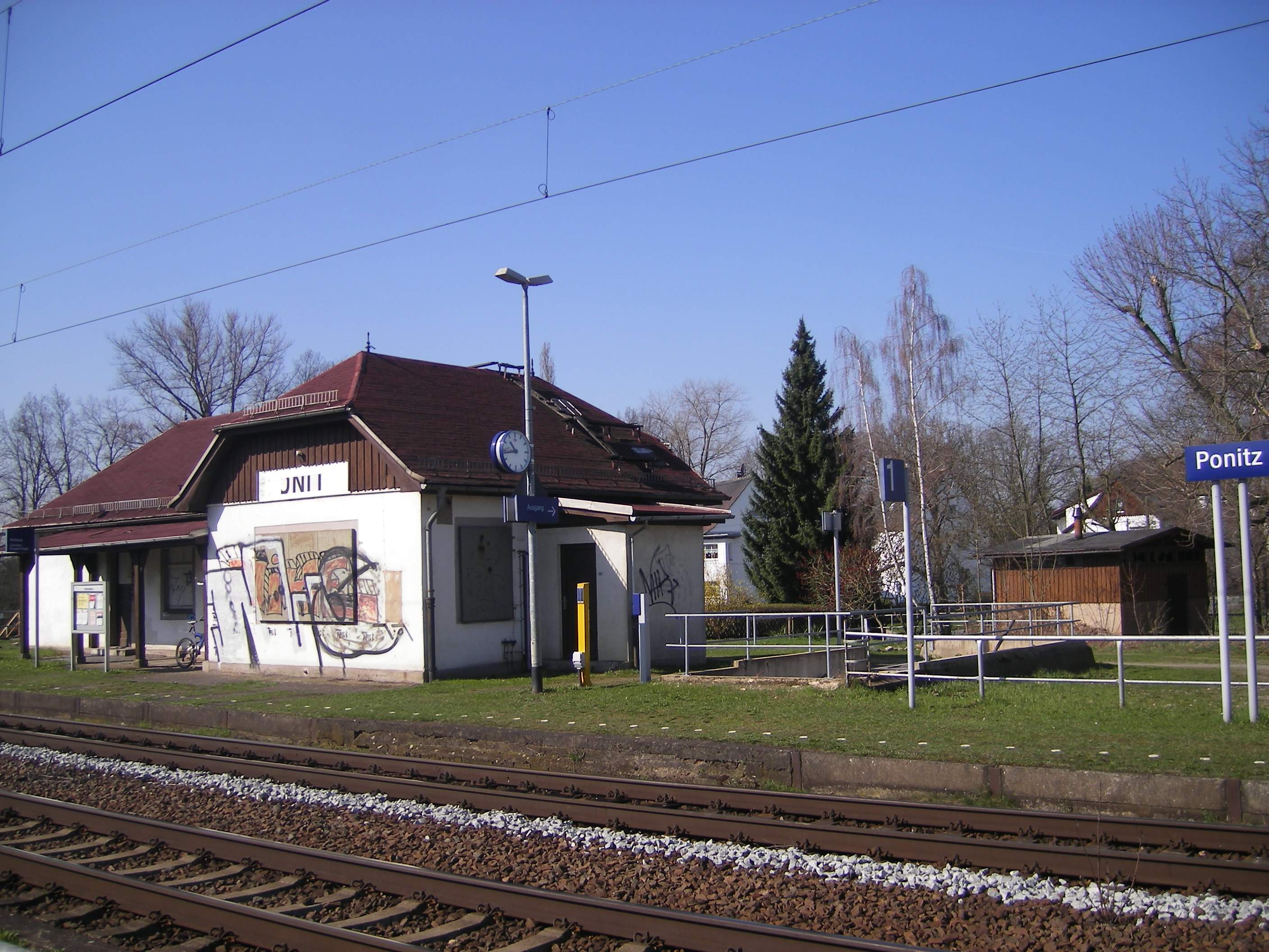 Train station in Ponitz near Altenburg/Thuringia